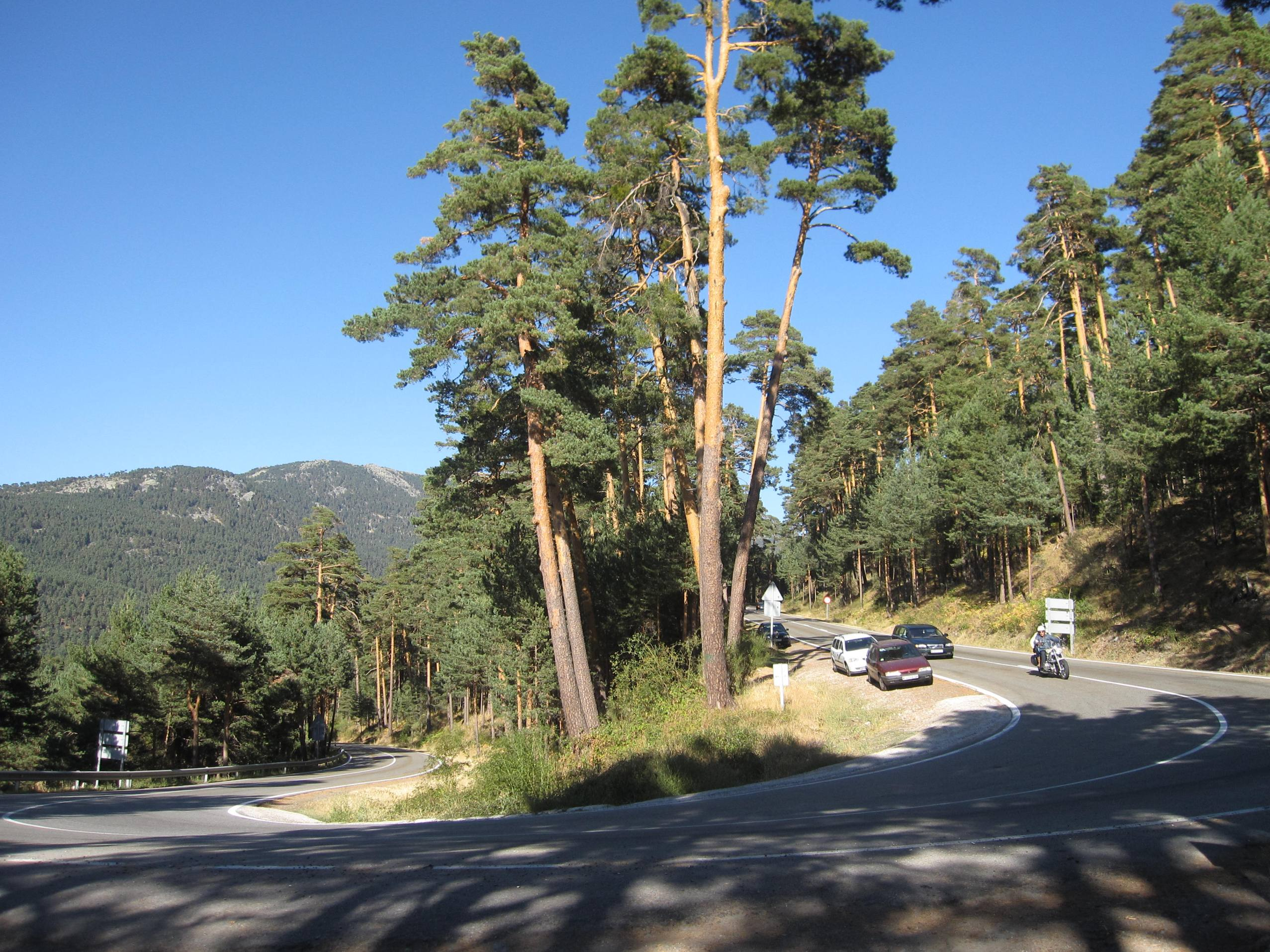 One of the seven 'revueltas' in the CL-601 road crossing the Guadarrama mountain range (central Spain). Trees are Pinus sylvestris.